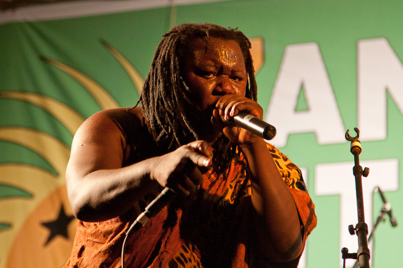 Mrisho Mpoto at ZIFF 2011 (photo: Peter Bennett)